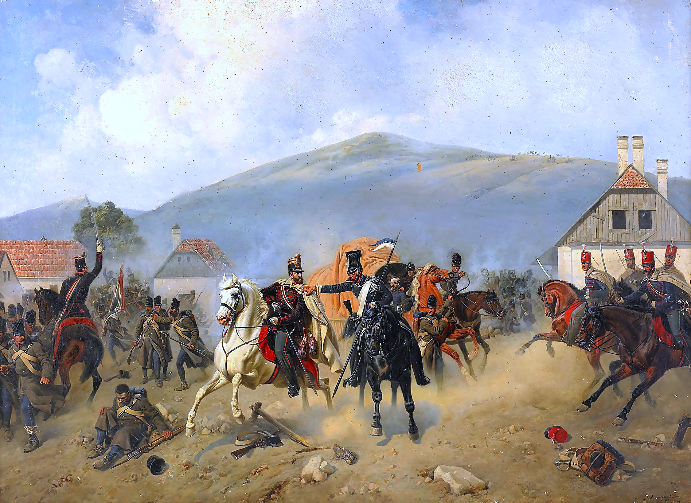 Skirmish during Hungarian Revolution 1848-1849. oil on canvas, 45.7 x 61.4 in. / 116 x 156 cm.